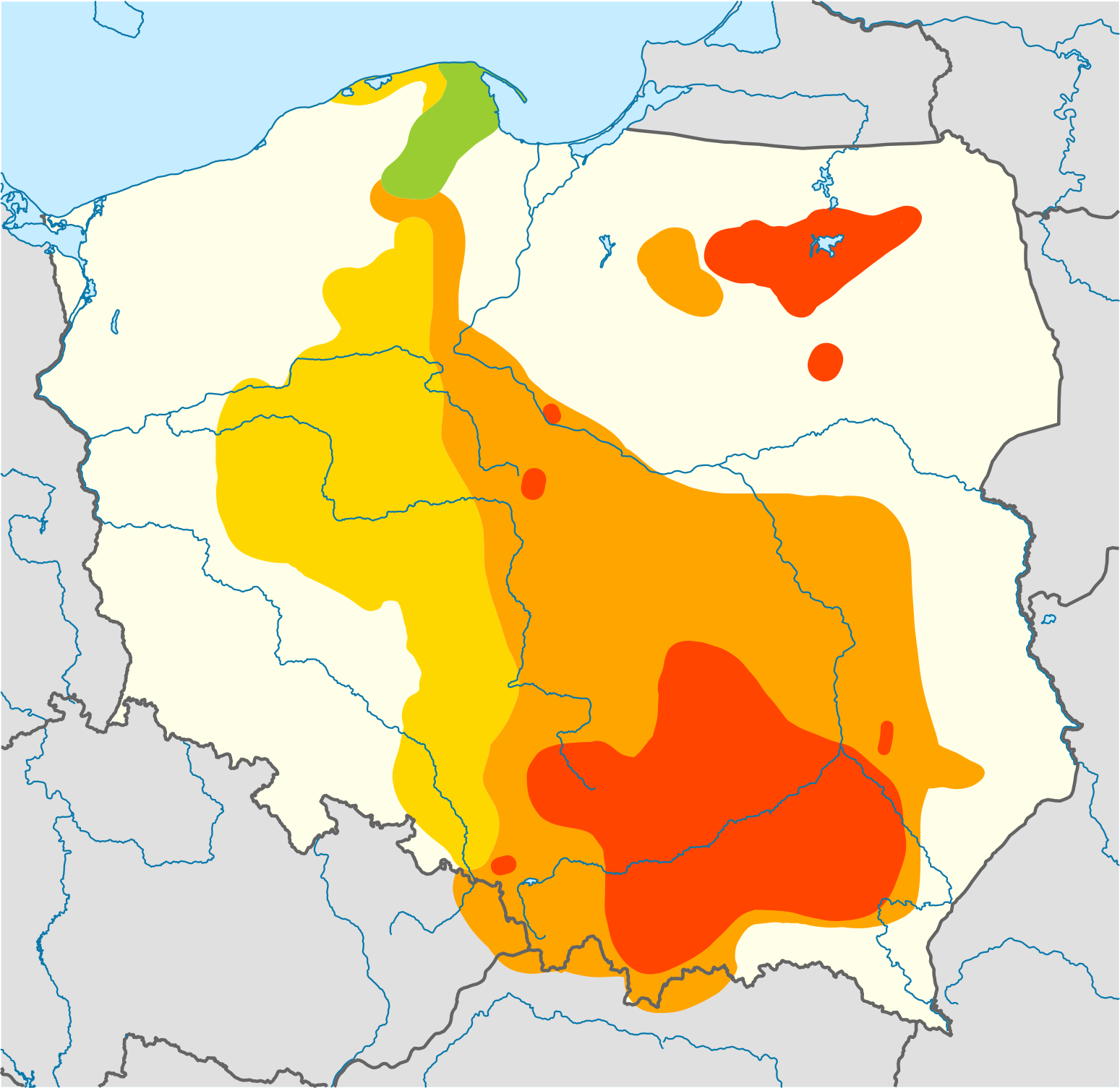 So-called "raised a" sound in Polish dialects